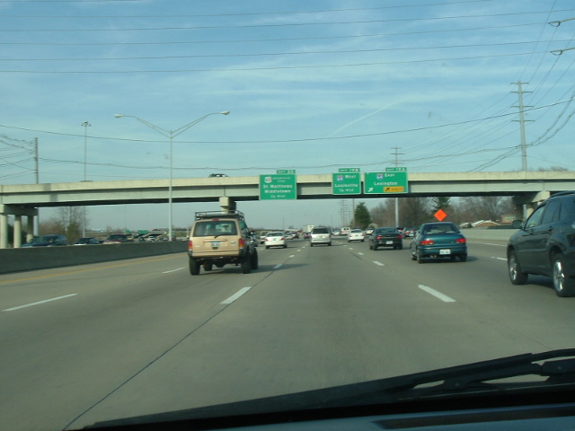 Picture of the Henry Watterson Expressway in Louisville. Eastbound I-264 on the approach to I-64 and Shelbyville Road exits. Taken and uploaded by Jeffrey 'B'. Morris on March 30, 2006, the year of the dog. All rights are released into the public domain, unless this worthless thing is worth something, then I want them back. (just kidding)